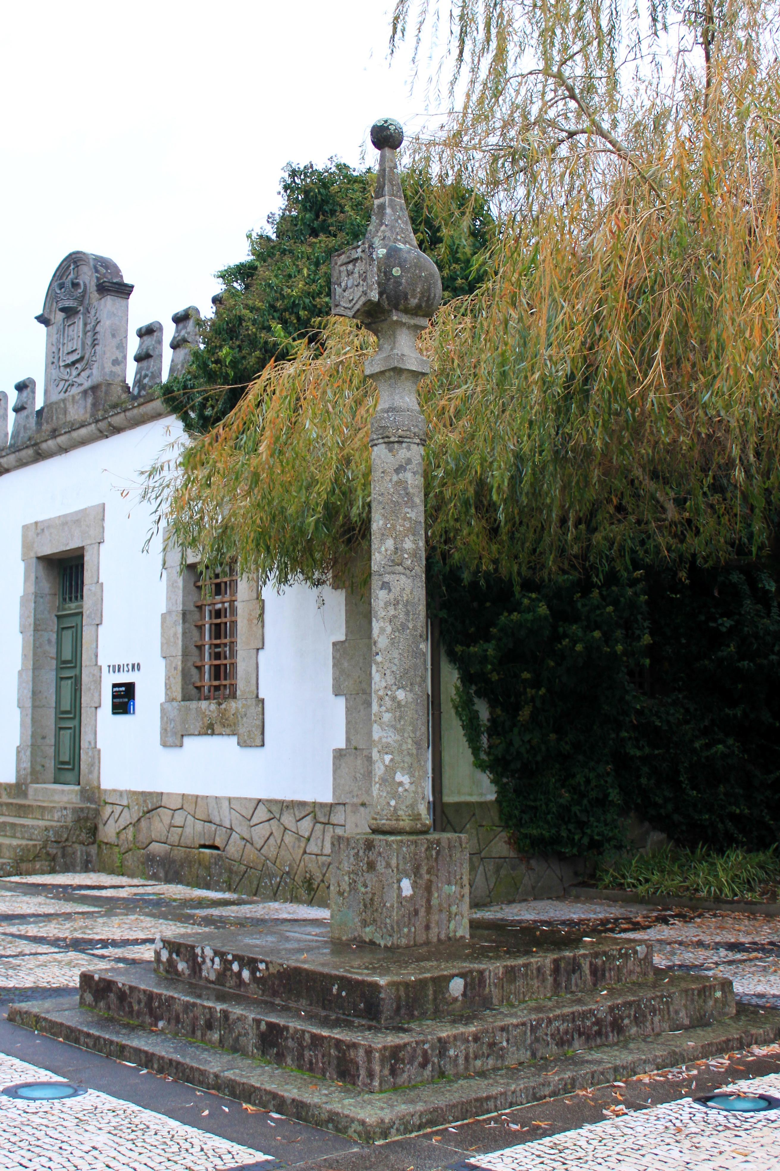 This file was uploaded for Wiki Loves Monuments in Portugal with the unique identifier 73003.